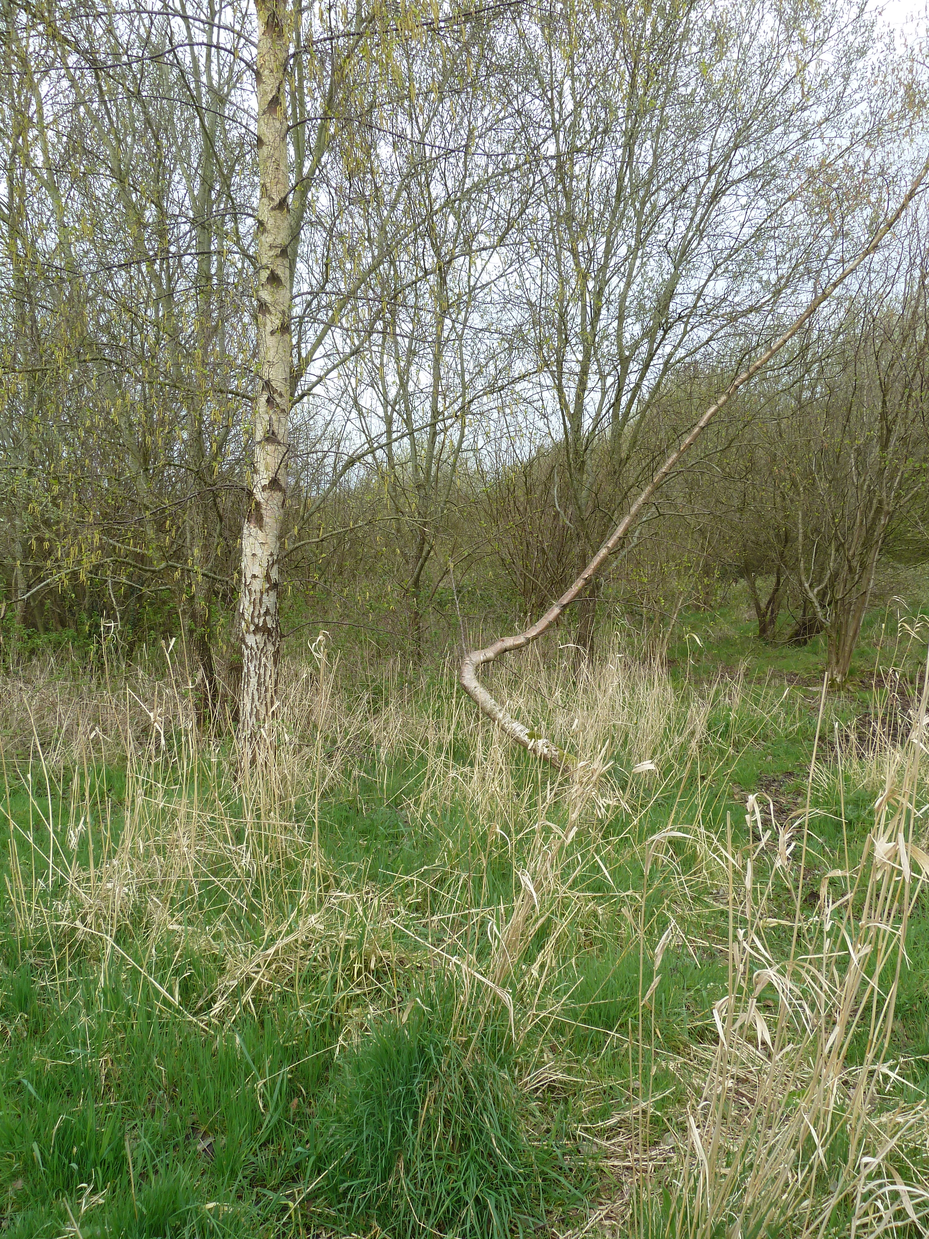 Hilden, Co.Antrim, Ireland mid April habitat for Garden Warbler